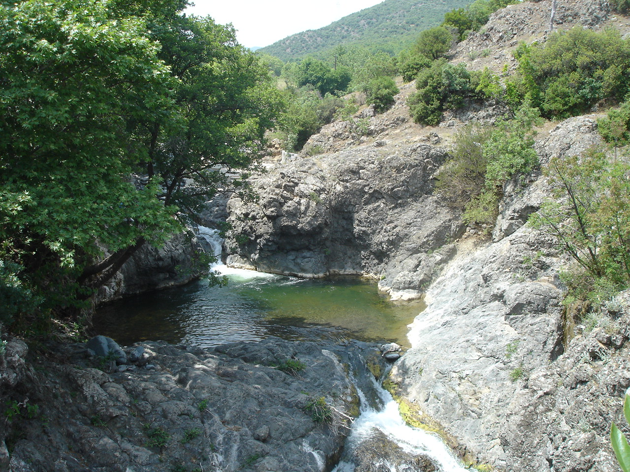 Stara Reka river near Miravci, Gevgelija region, Macedonia